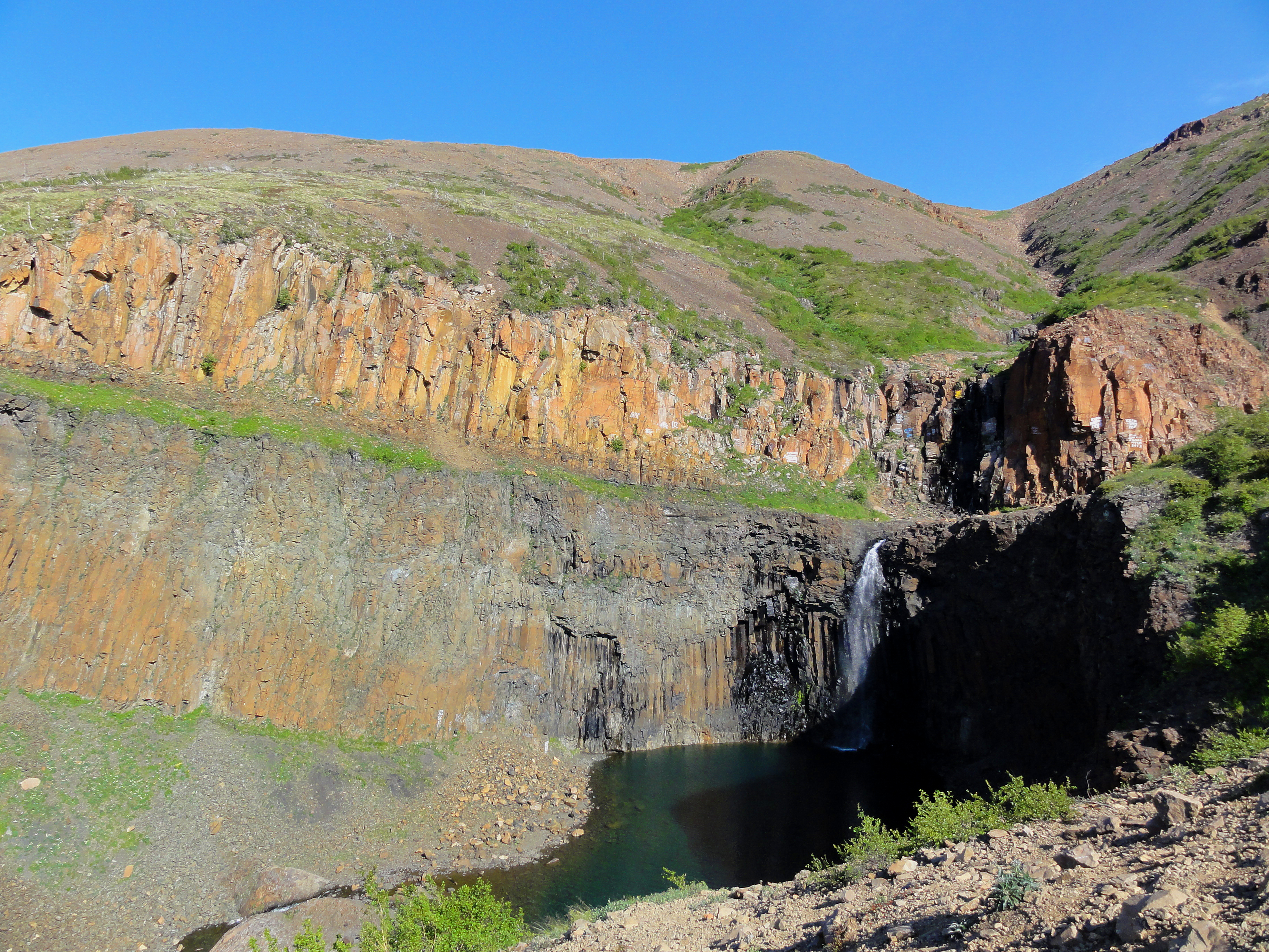 Waterfall and lake at Red stones.